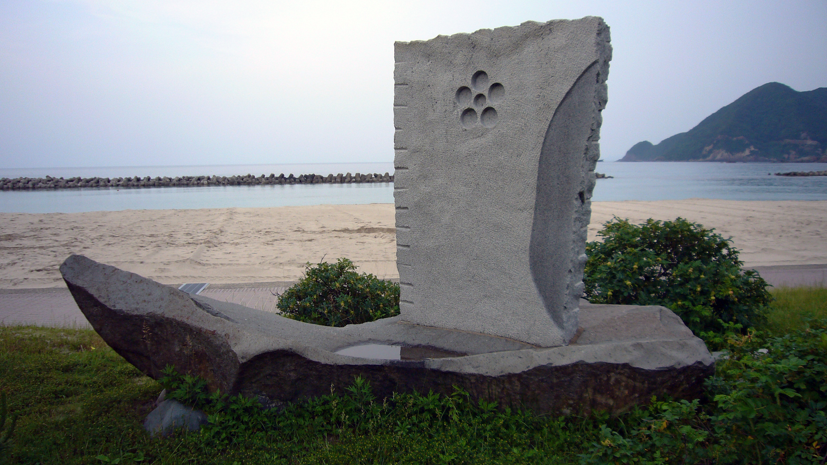 Kitamaekan in Toyooka, Hyogo prefecture, Japan